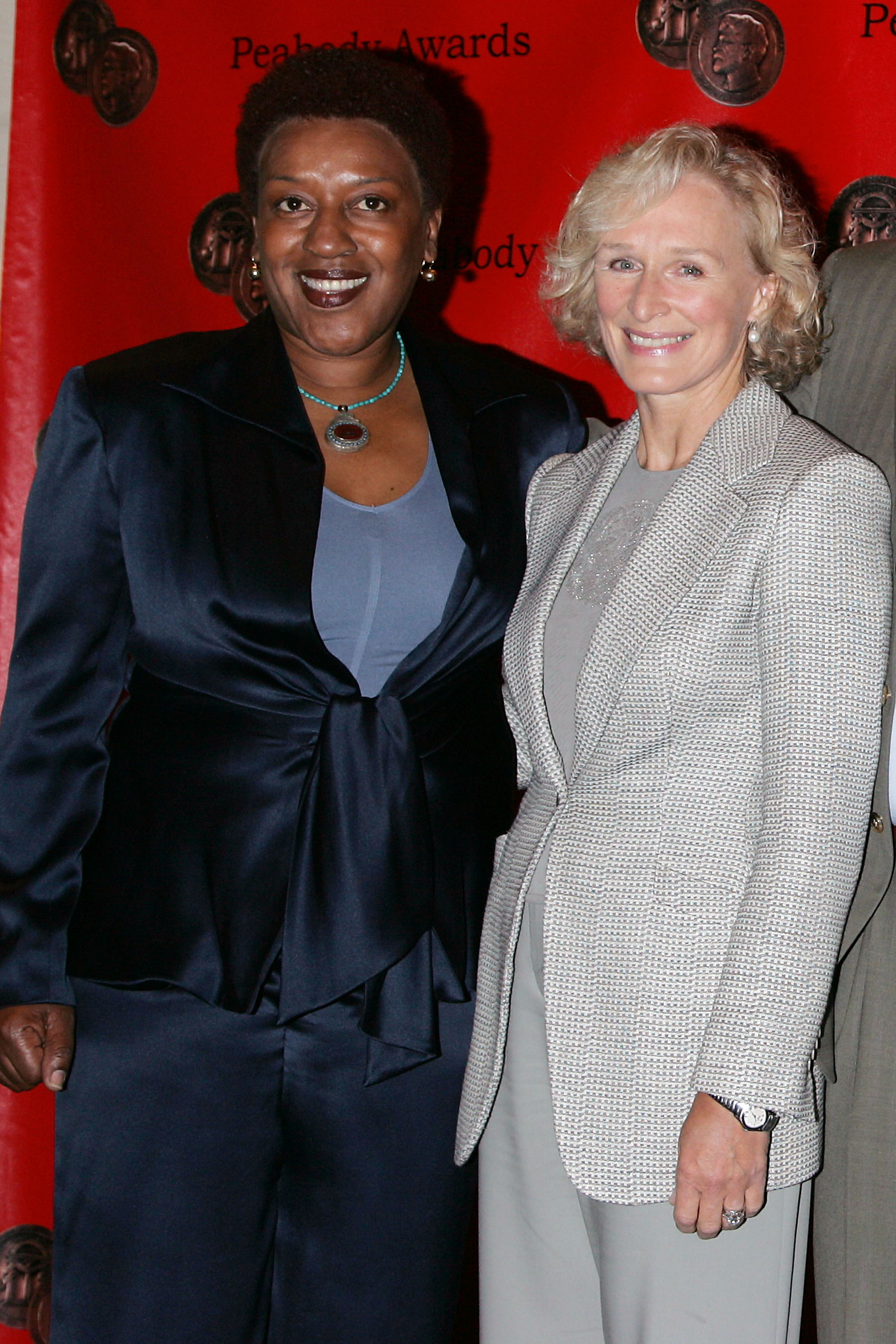 New York, NY - 6/5/2006 - The 65th Annual Peabody Awards honored 32 winners for the excellence in electronic media for 2005. The George Foster Peabody Awards recognizes distinguished achievement and meritorious public service by radio and television stations, networks,producing organizations and individuals. -PICTURED: CCH Pounder,Glenn Close (The Shield) -PHOTO by: Alex Oliveira/startraksphoto.com -AO175697